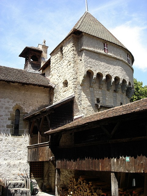 Chillon